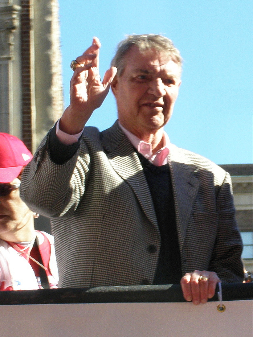 Harry Kalas on a float at the 2008 Phillies World Championship Parade. Other versions: 100px